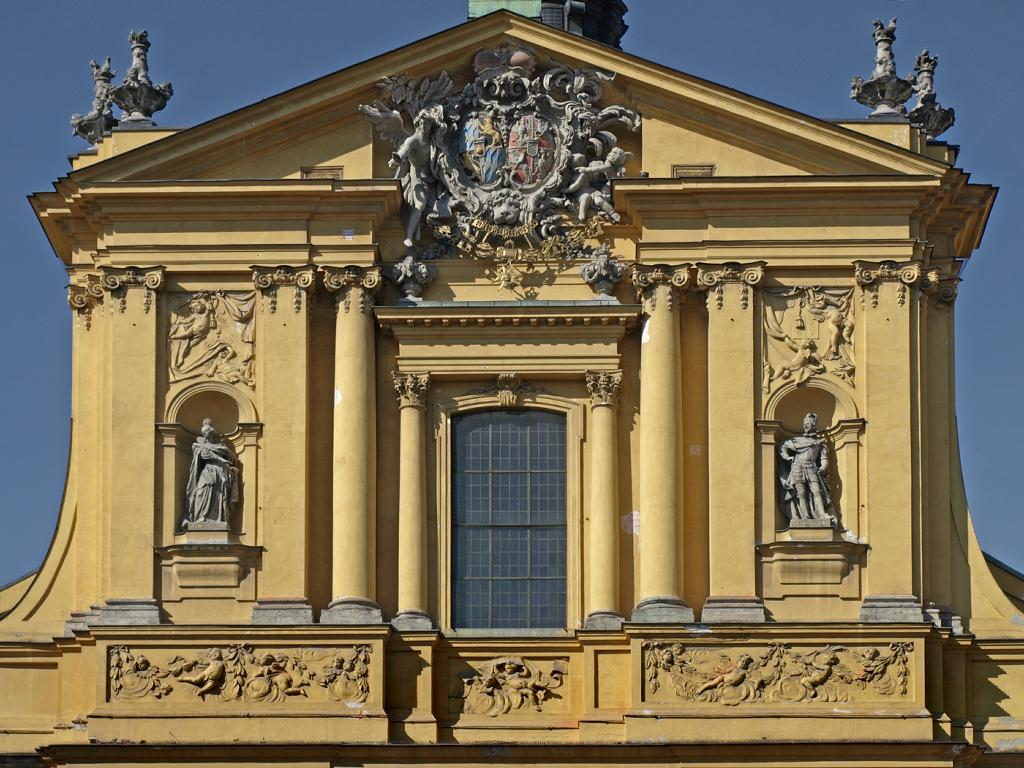 Munich (Germany), Church of the theatiner, photo 2008